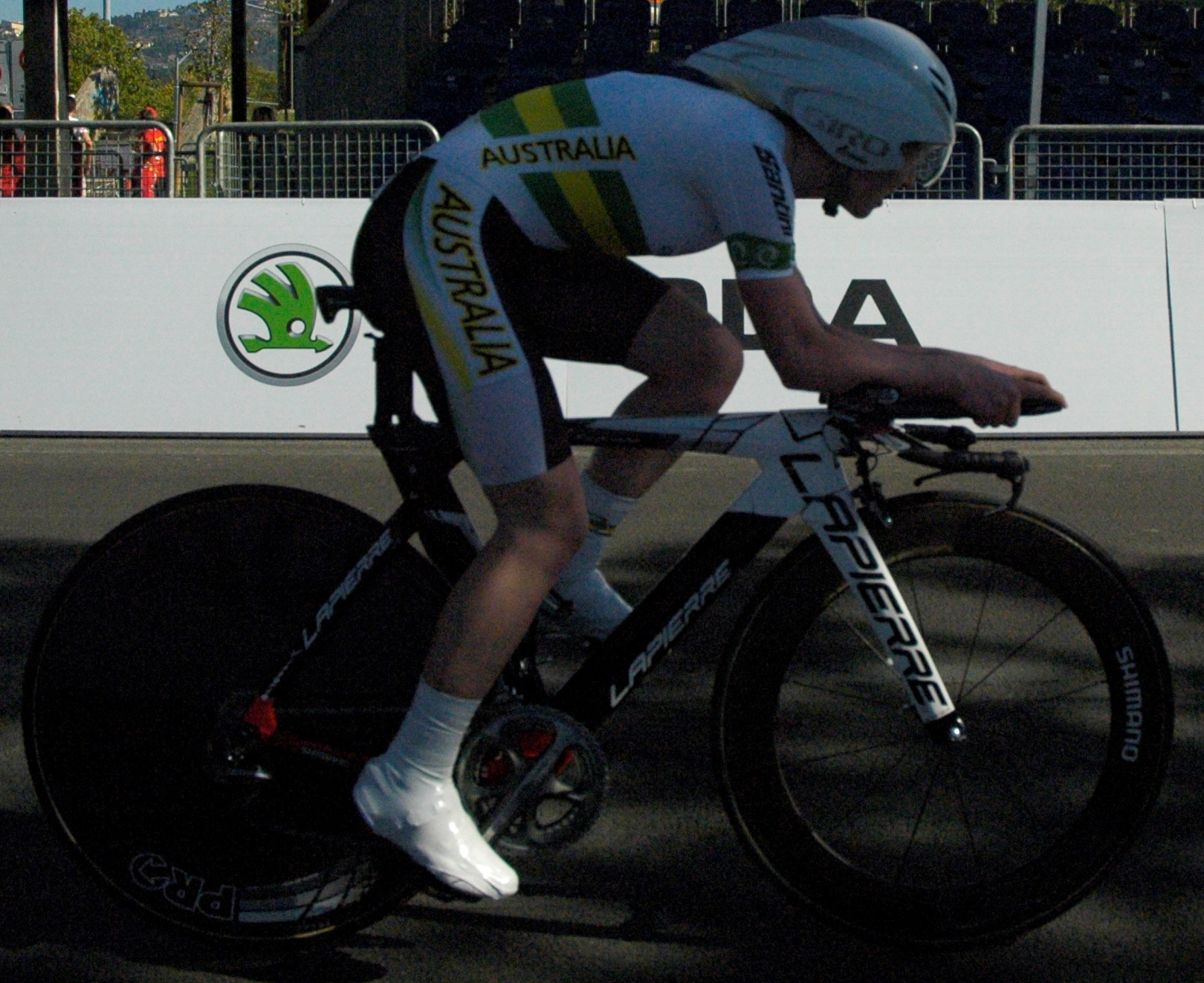 2013 UCI Road World Championships, Alexandra MANLY